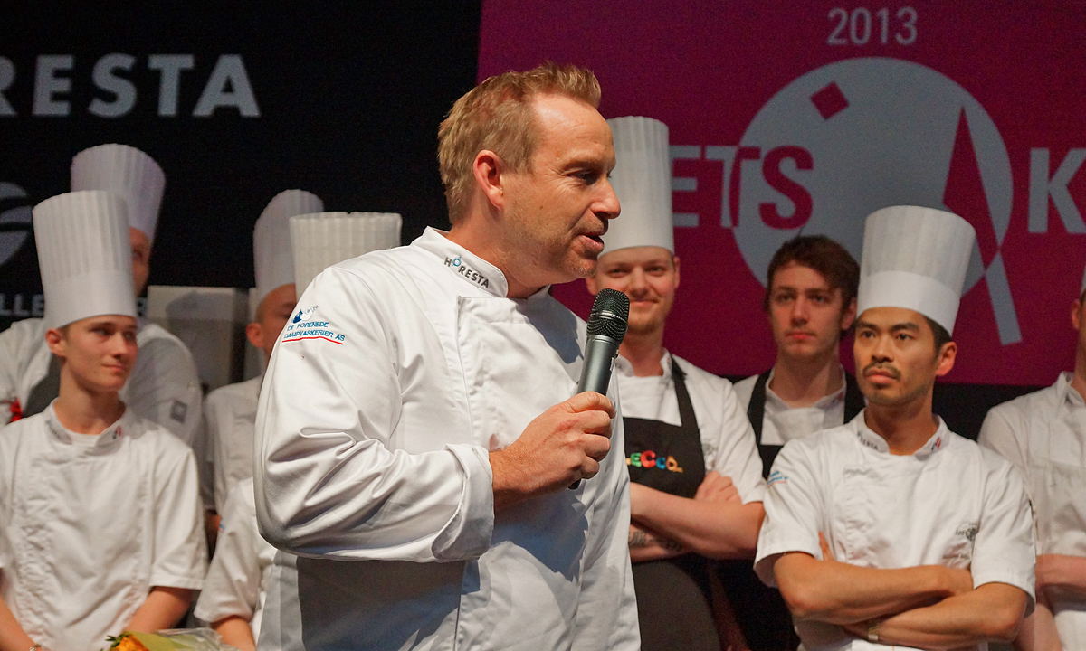 Adam Price Danish chef, restaurateur, play writer, etc. - here seen at "Copenhagen Food Fair", where he was judge in the competition for the title as "Chef of the Year 2013"